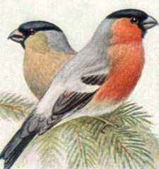 Eurasian Bullfinch, male and female